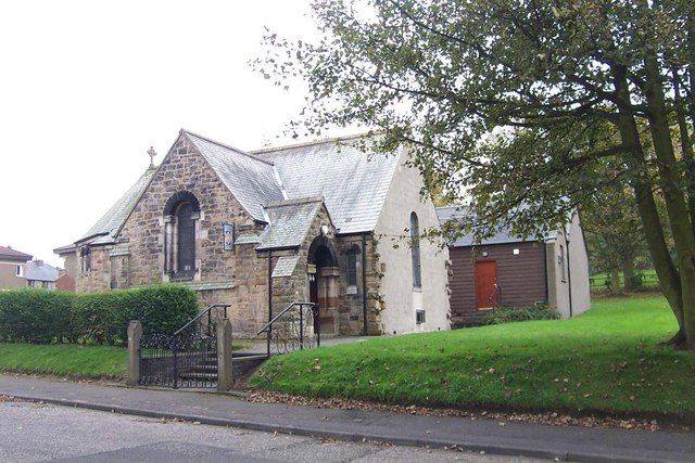 St Catharine’s church This small church building is home to the Scottish Episcopal church congregation. Internally it is probably the most beautiful of Bo’ness churches. The church makes itself open to many organisations including the local branch of AA. St Catharine (note the spelling), legend has it, was a saint of Alexandria whose intellectual defence of Christianity so upset the pagan king that he had her crucified on a wheel. Pictures of her in European art often show her with the wheel.